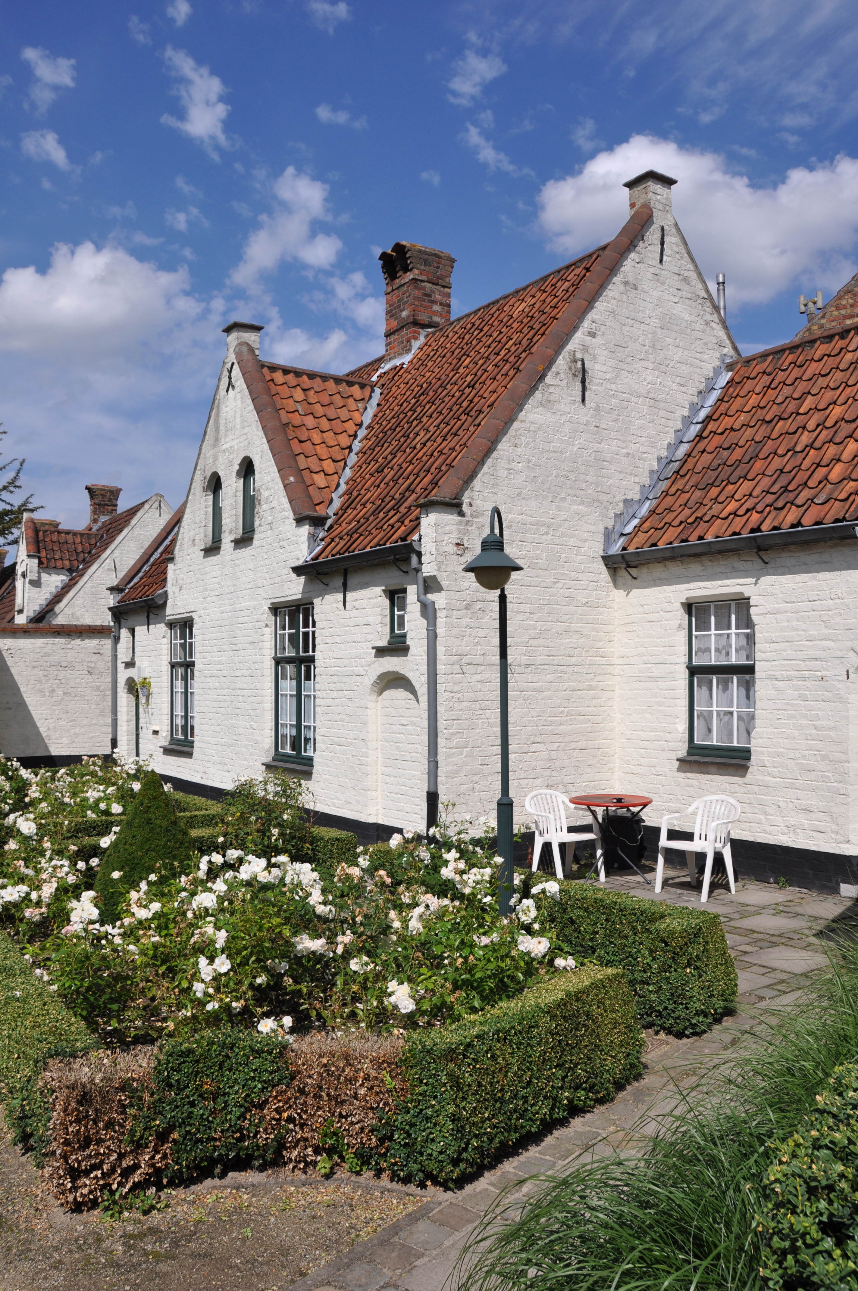 Bruges (Belgium): almshouses in the Stijn Streuvels street